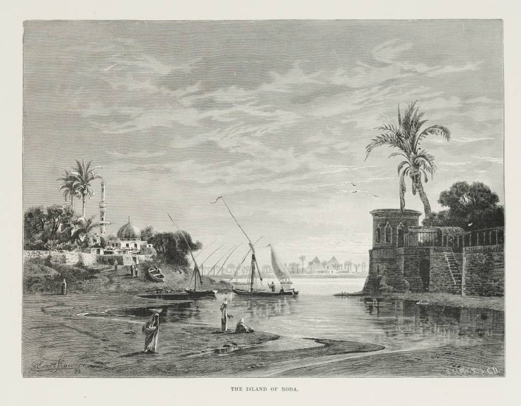 A harbor on the island of Roda.